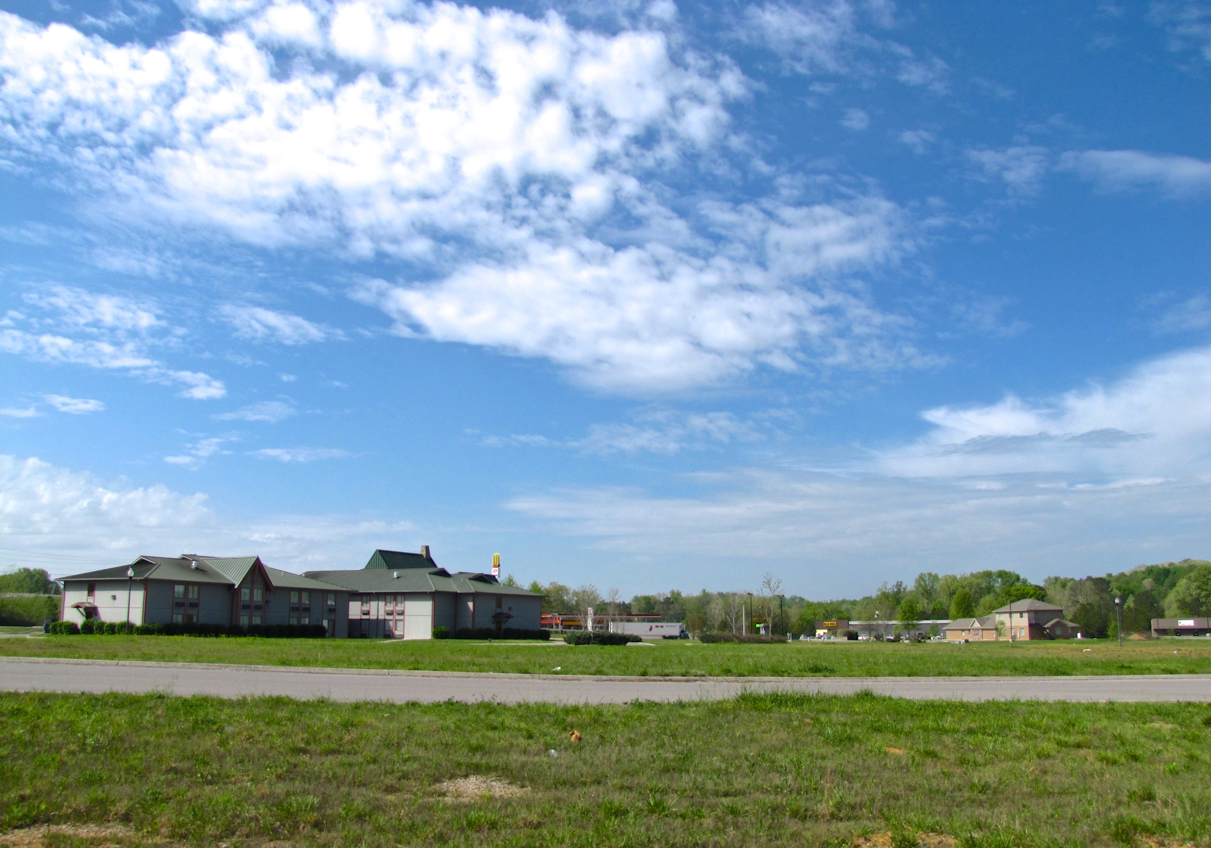 Buildings in the community of Ocoee in Polk County, Tennessee, United States.